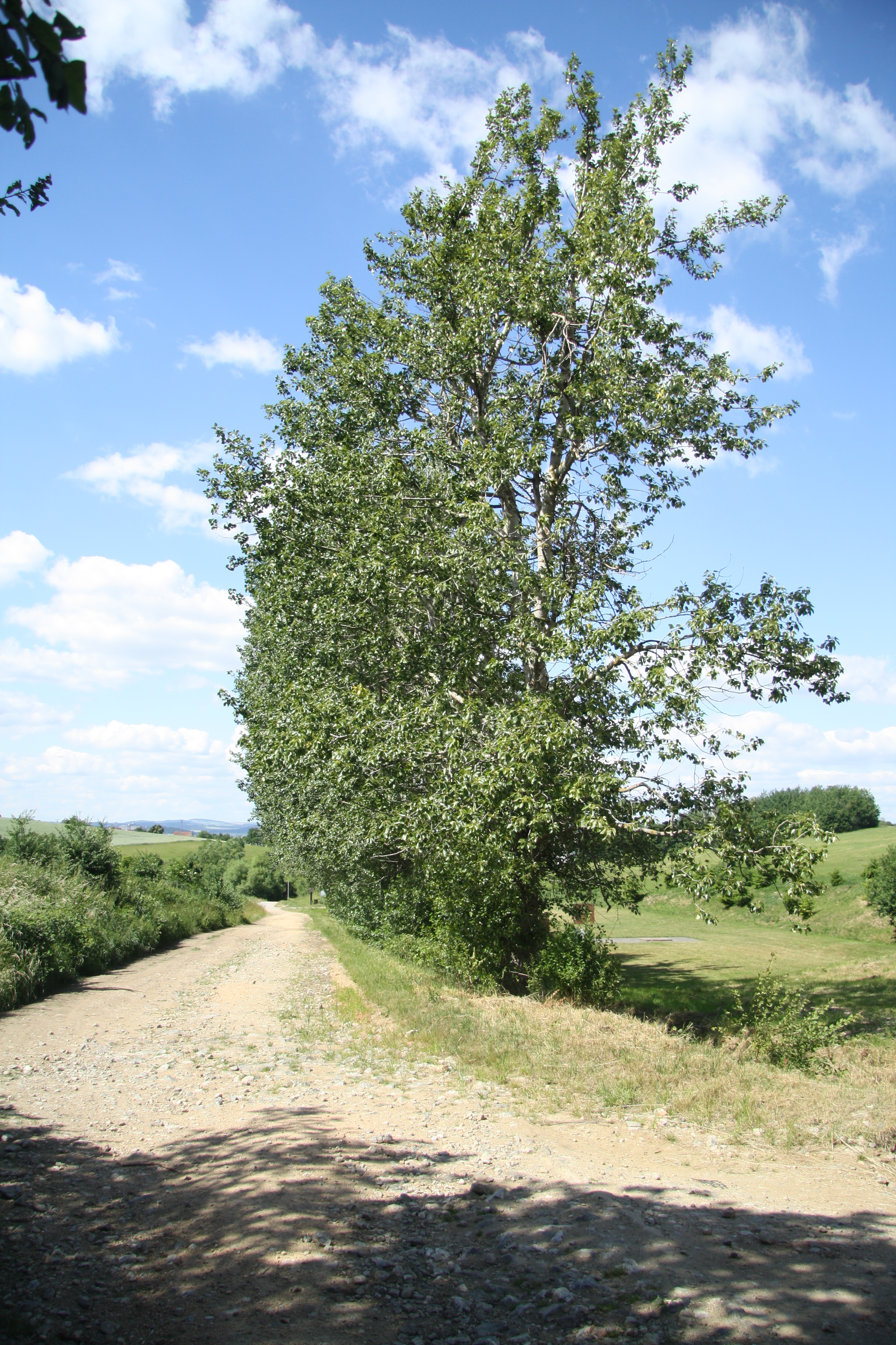 Bike path 5212 and 26 to Mastník, Třebíč District.